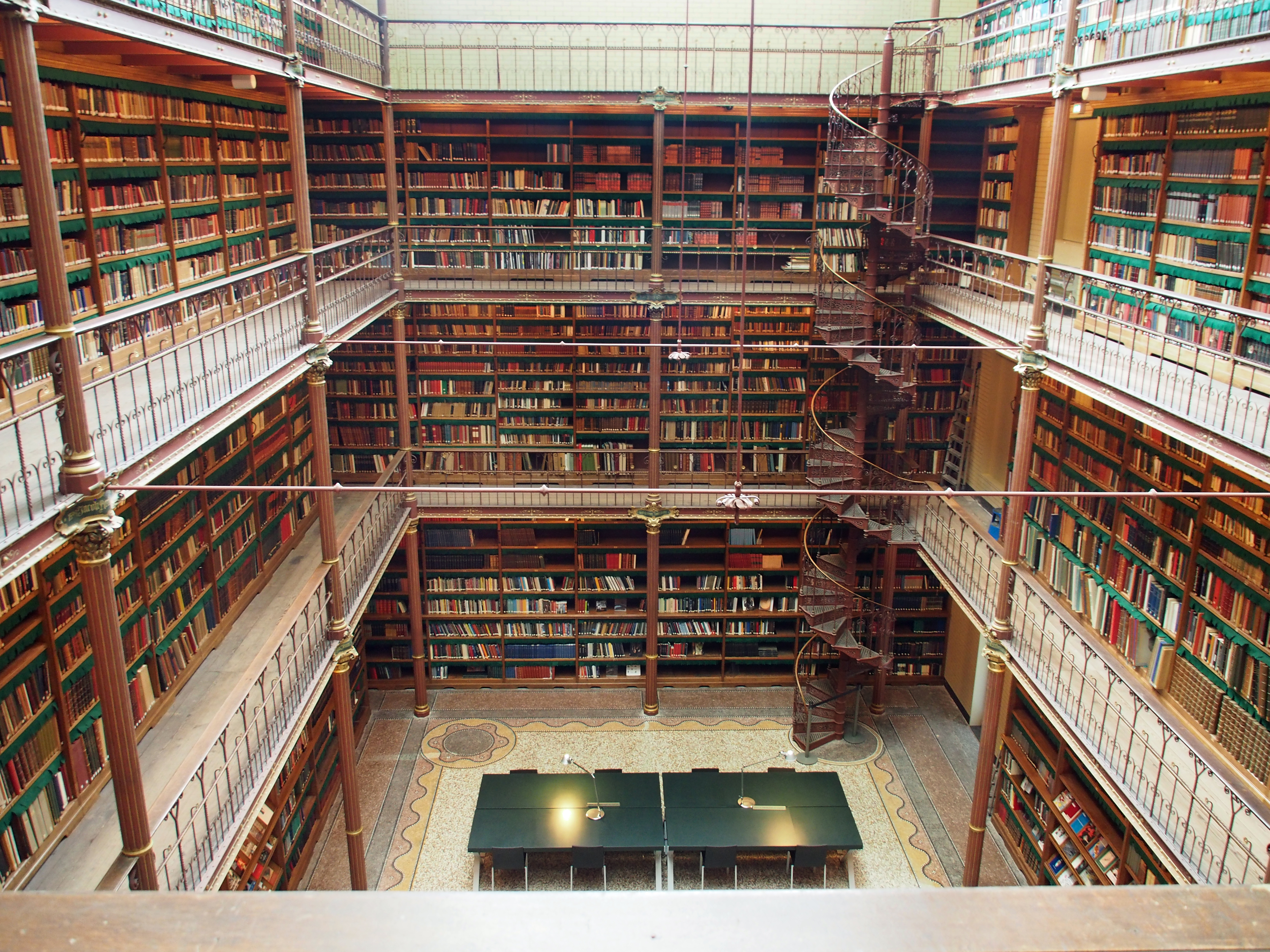 Rijksmuseum Research Library